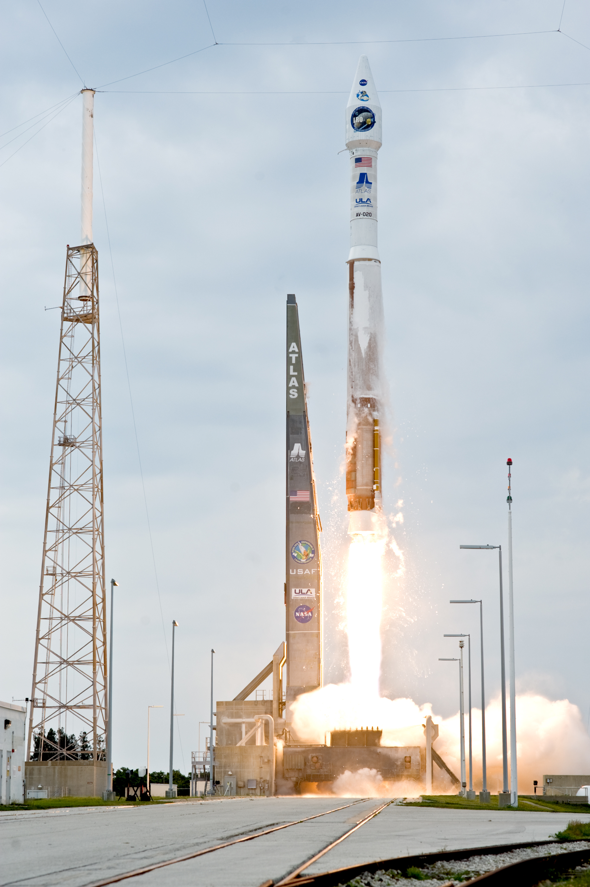 Trailing a column of fire, the Atlas V(401) carrying NASA's Lunar Reconnaissance Orbiter, or LRO, and NASA's Lunar Crater Observation and Sensing Satellite, known as LCROSS, hurtles off Launch Complex 41 at Cape Canaveral Air Force Station in Florida. LRO and LCROSS are the first missions in NASA's plan to return humans to the moon and begin establishing a lunar outpost by 2020. The LRO also includes seven instruments that will help NASA characterize the moon's surface: DIVINER, LAMP, LEND, LOLA , CRATER, Mini-RF and LROC. Launch was on-time at 21:32 UTC.